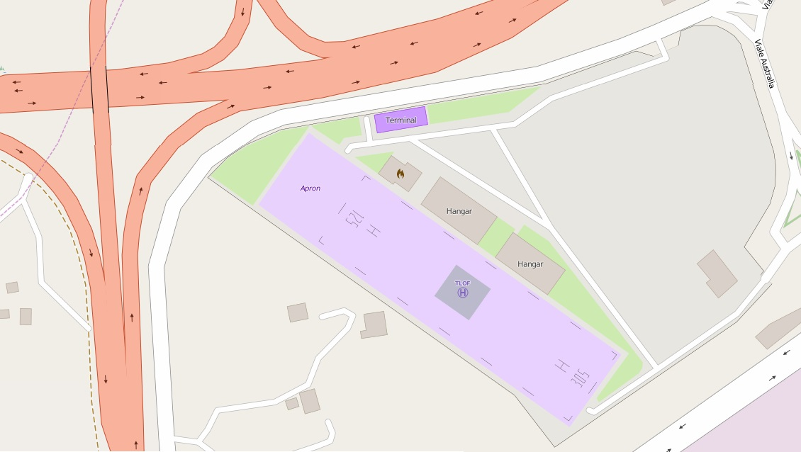 Map of Pozzallo Heliport in Sicily.